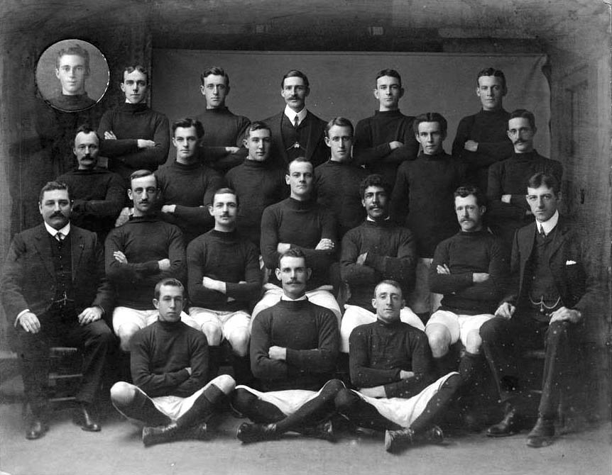 Photo of the Queensland Representative Team.